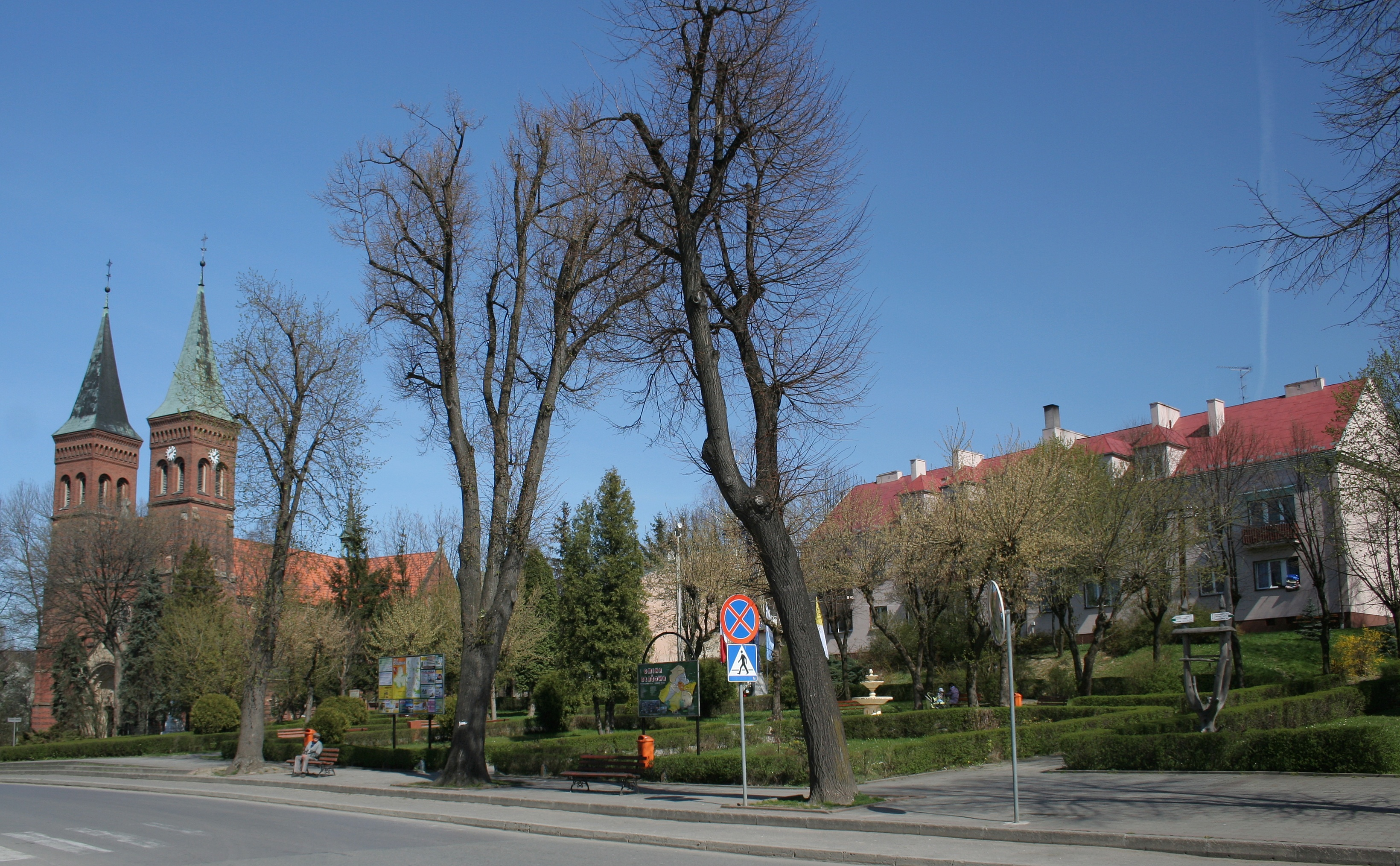 The market square in Błażowa, Poland.